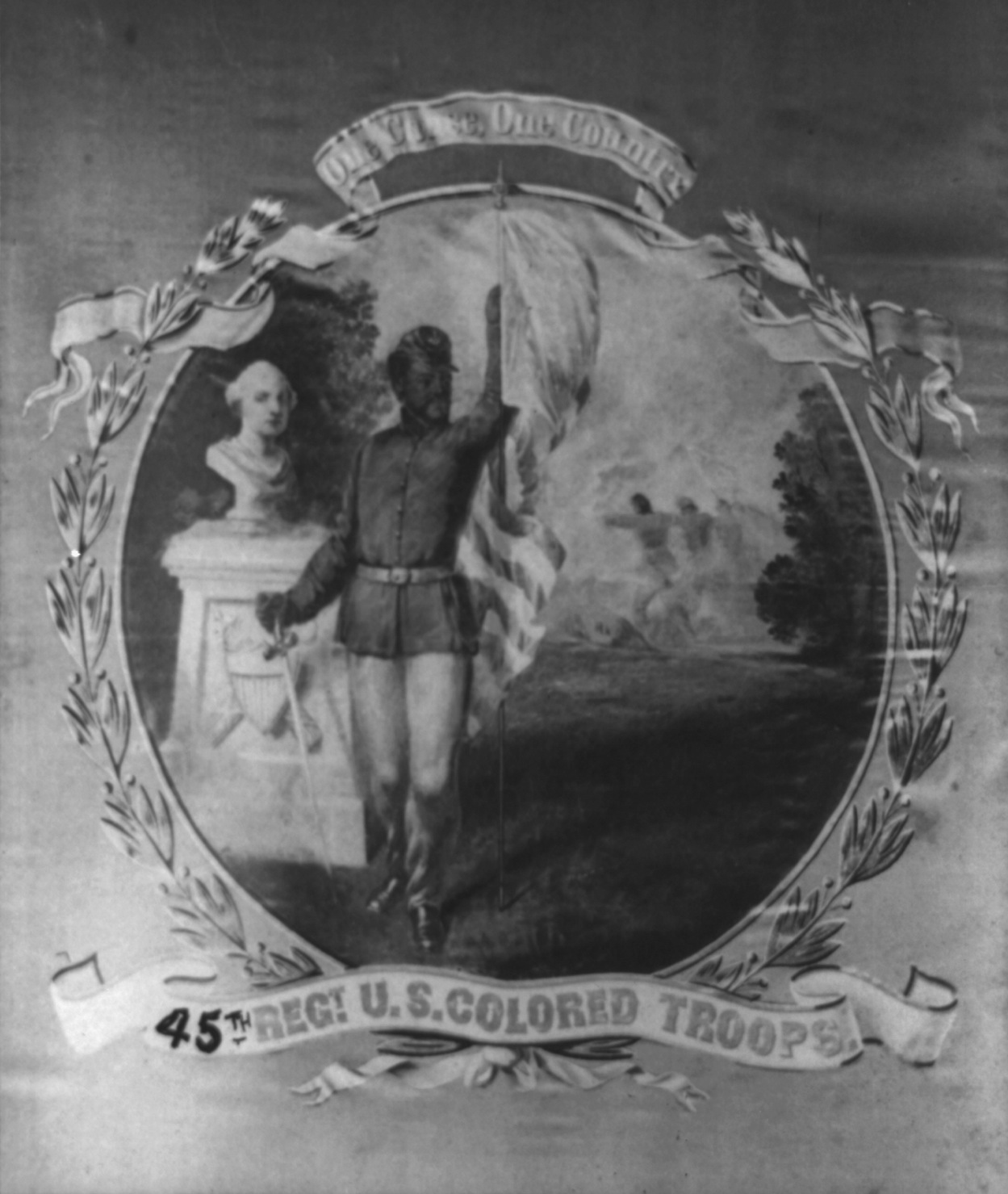 LOC Metadata Title: One cause, one country - 45th Regt. U.S. Colored Troops Related Names: Bowser, David Bustill, 1820-1900 , artist Date Created/Published: [between 1863 and 1865] Medium: 1 photographic print on carte de visite mount : albumen. Summary: Regimental flag depicting African American soldier, representing the 45th United States Colored Troops, standing next to bust statue of George Washington. Reproduction Number: LC-USZ62-86080 (b&w film copy neg.) Rights Advisory: No known restrictions on publication. Call Number: LOT 6592, no. 136 USE SURROGATE [P&P] Repository: Library of Congress Prints and Photographs Division Washington, D.C. 20540 USA Notes: On verso: D.B. Bowser - Artist - No. 481 North 4th St. Philada. Photograph of painting. In album: [U.S. army officers and other persons of the Civil War period / John White Geary, comp. 1861-1865], no. 136, p. 34 (lower right). Surrogate available as color laser copy in P&P Reading Room. Subjects: Washington, George,--1732-1799--Statues. African Americans--Military service--1860-1870. Military standards--1860-1870. United States--History--Civil War, 1861-1865. Format: Albumen prints--1860-1870. Cartes de visite--1860-1870. Collections: Miscellaneous Items in High Demand Bookmark This Record